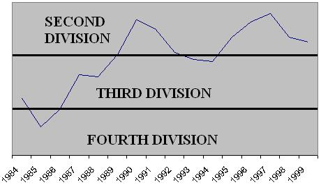 Port Vale F.C. sail through the league's under the management of John Rudge.